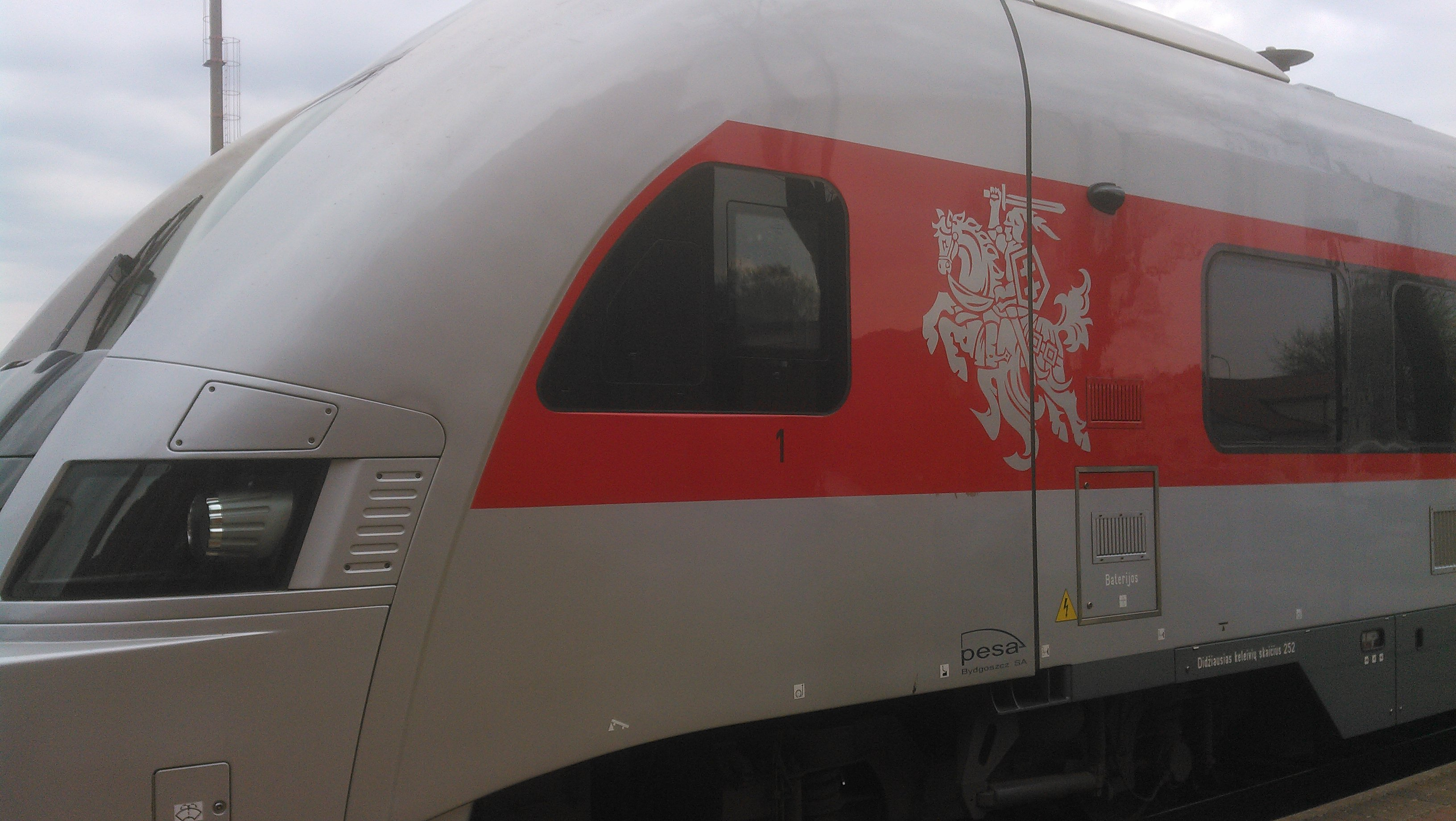 Lithuanian Railways passenger train decorated with coat of arms Vytis.